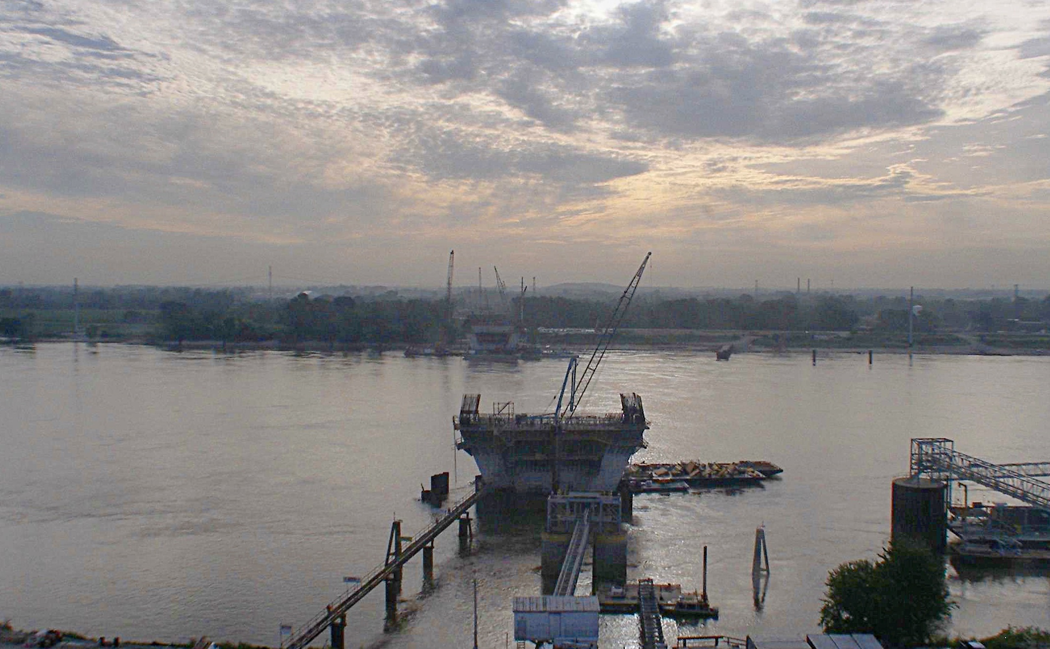 New Mississippi River Bridge under construction 2011-07-25.